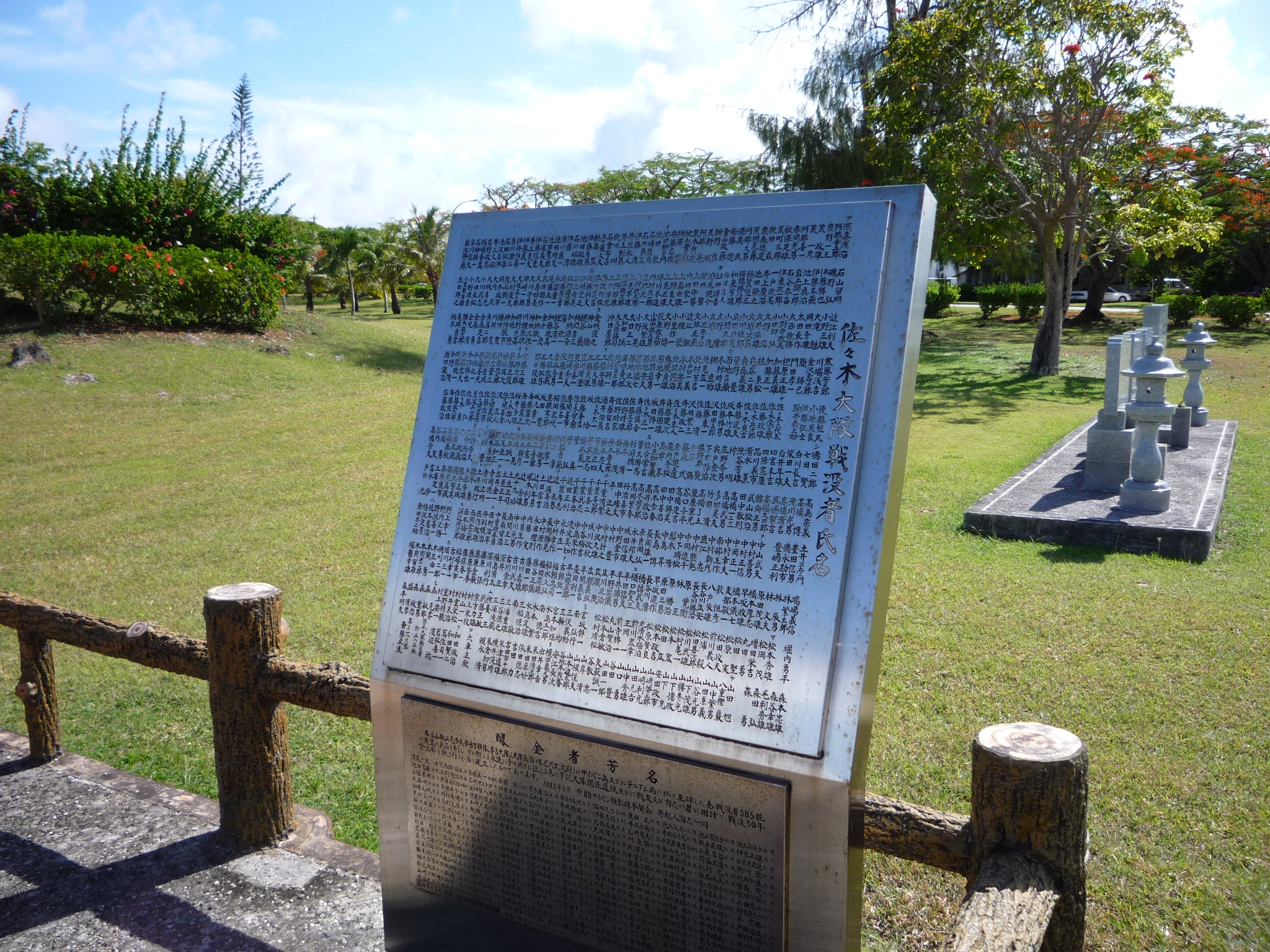 Memorial to Japanese dead in the Battle of Saipan, near Saipan International Airport.